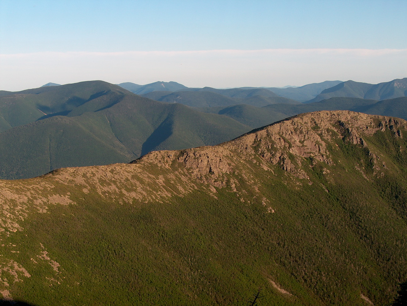 Bondcliff, a spur of Mount Bond in New Hampshire. Photo by Ken Gallager.